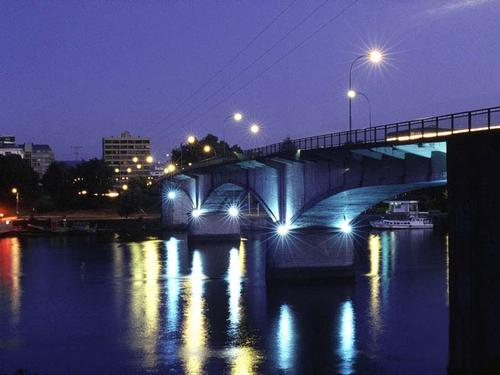 I took this photo with my own camera.